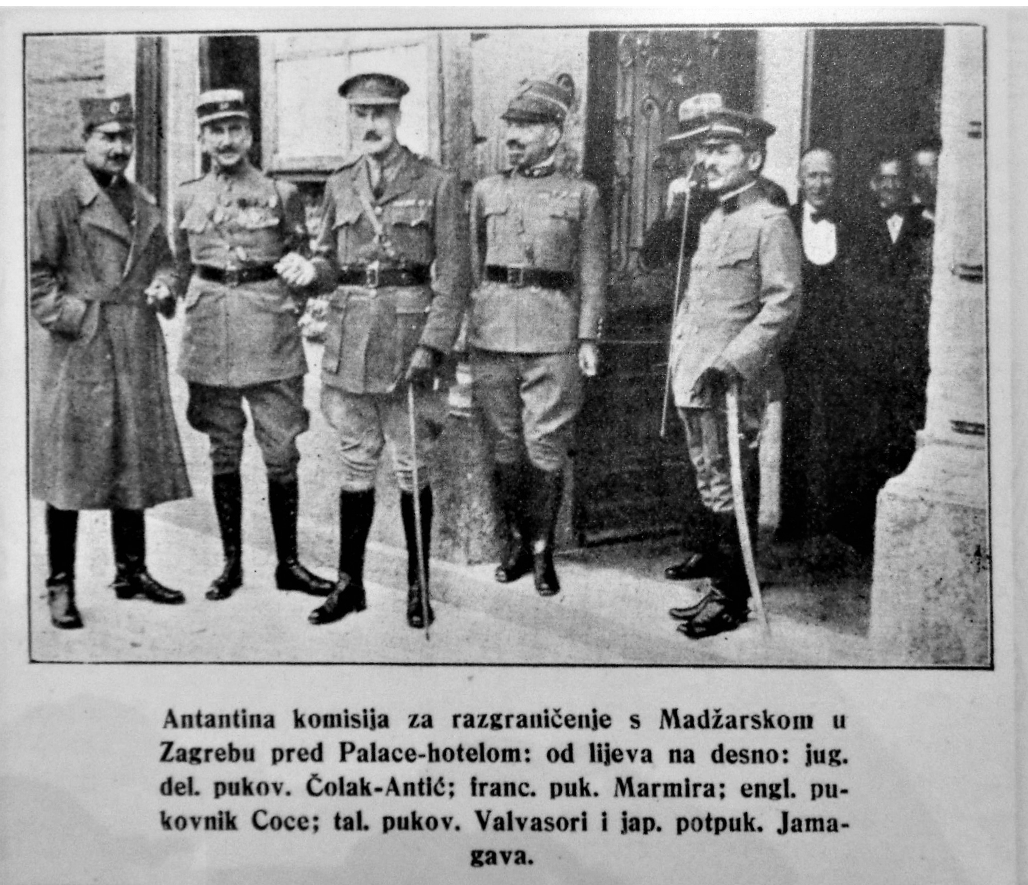 Entente cordiale Boundary commision for State of SCS meeting in Zagreb, Croatia